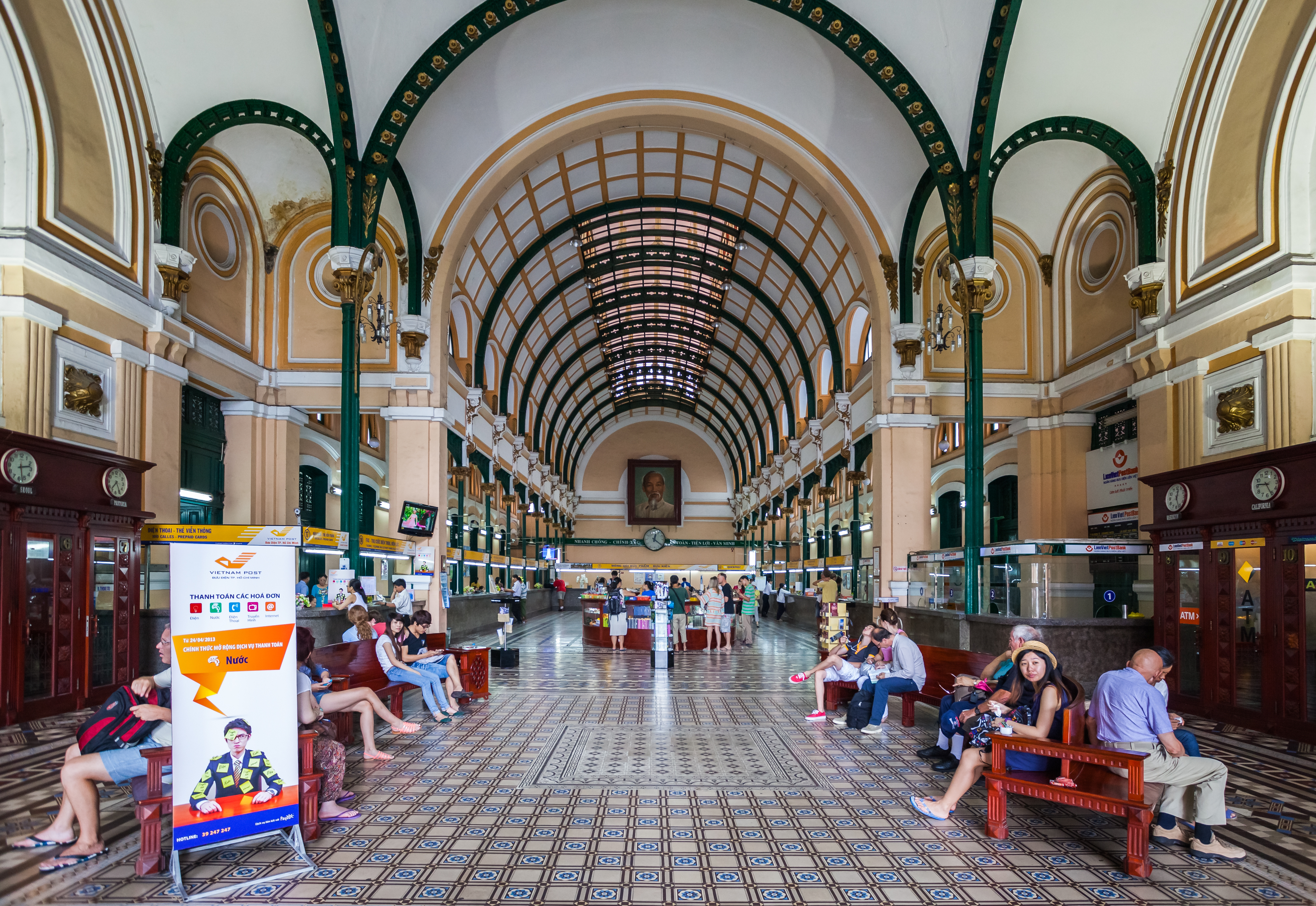 Central Post Office, Ho Chi Minh City, Vietnam